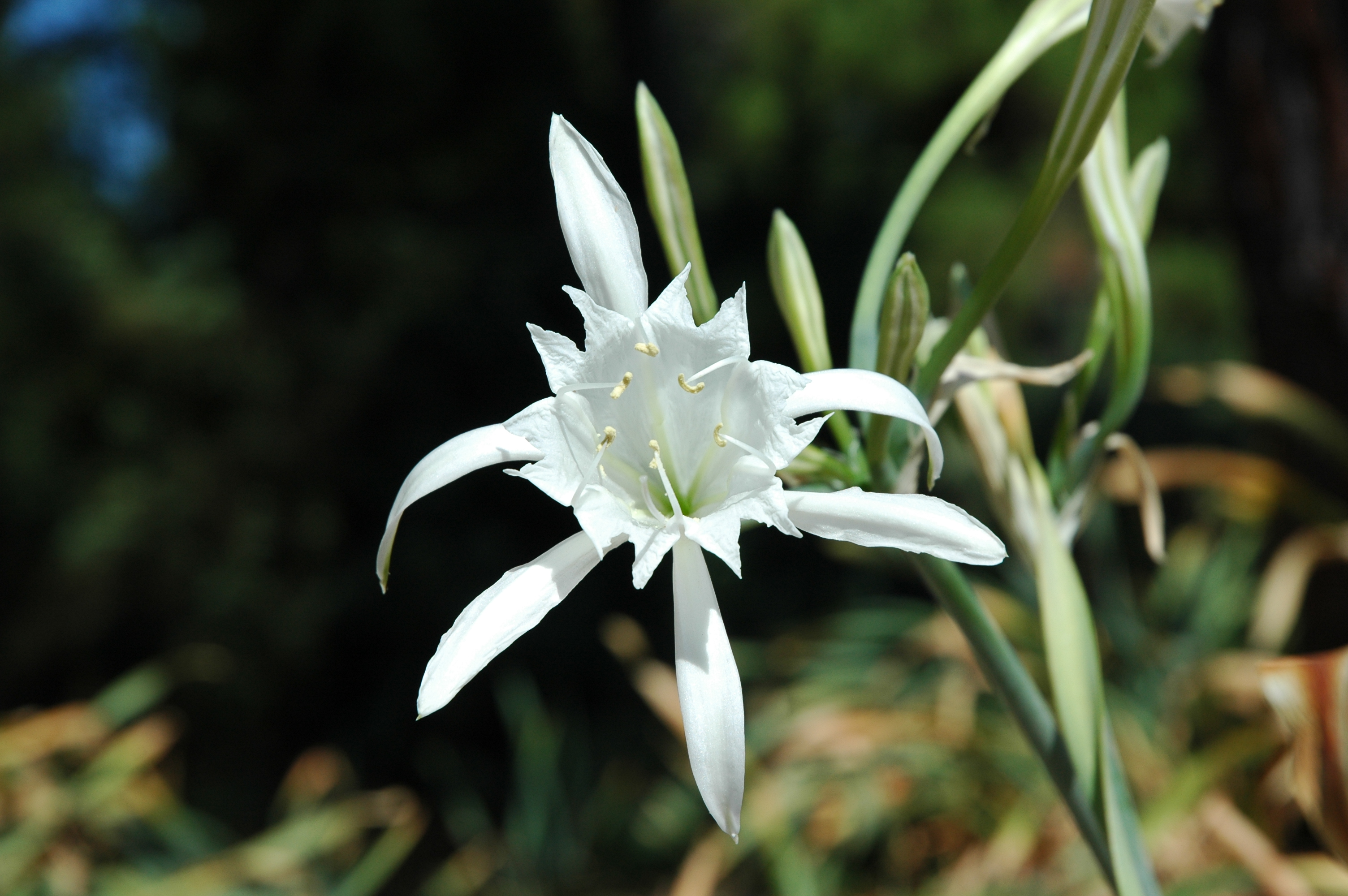 Flower of a sea daffodil